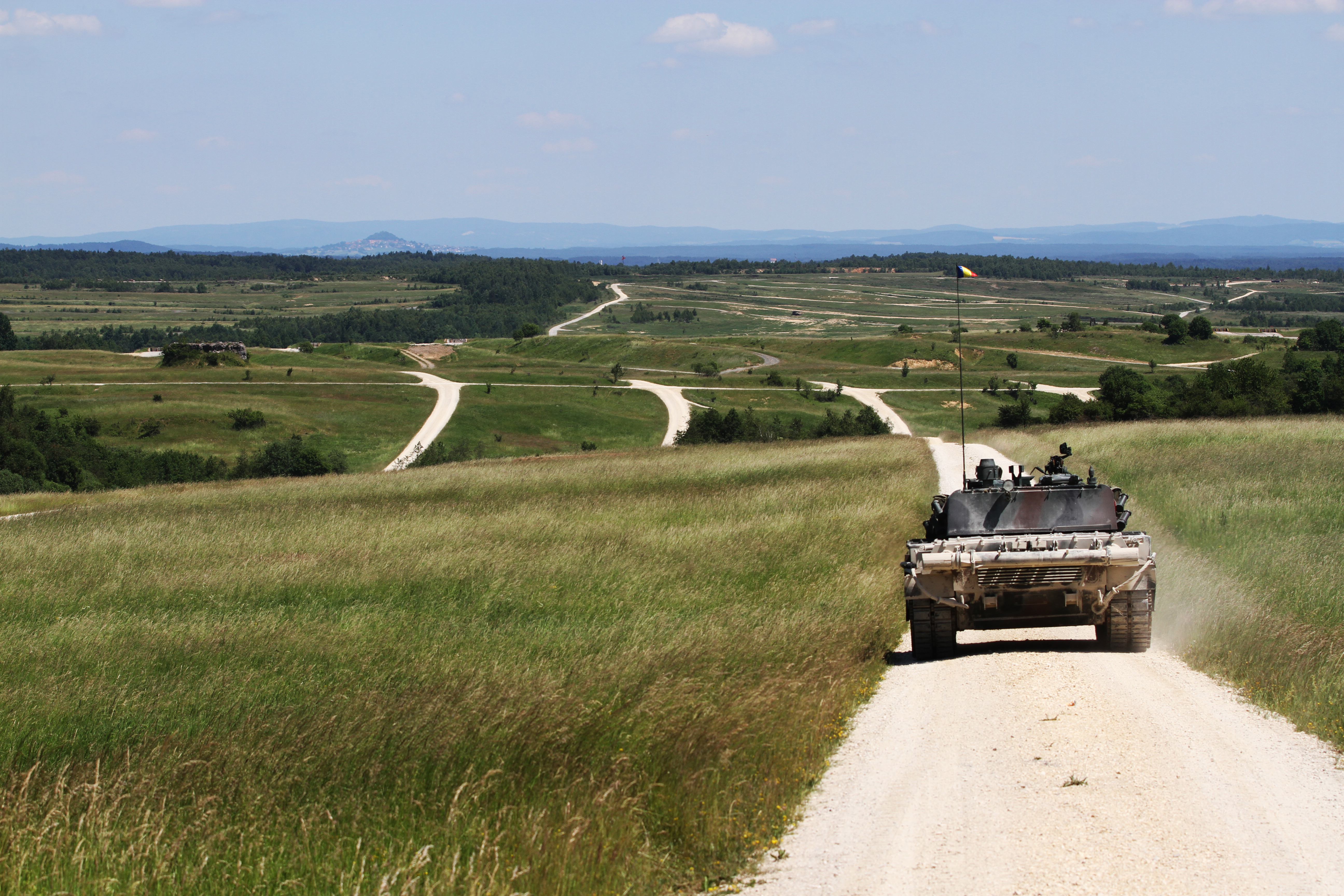 Soldiers from the Romanian Army's 284th Tank Battalion conduct live-fire training with a T-85M1 tank for the gunnery portion of Combined Resolve II at the U.S. Army Joint Multinational Training Command's training grounds in Grafenwoehr, Germany, June 13, 2014. This training facilitated the first time Romanian tanks have been fired outside their country since World War II. Romania is one of the 15 allied and partner countries participating in Combined Resolve II, a U.S. Army Europe-directed multinational exercise at Grafenwoehr and Hohenfels Training Areas, May 15 - June 30, 2014.